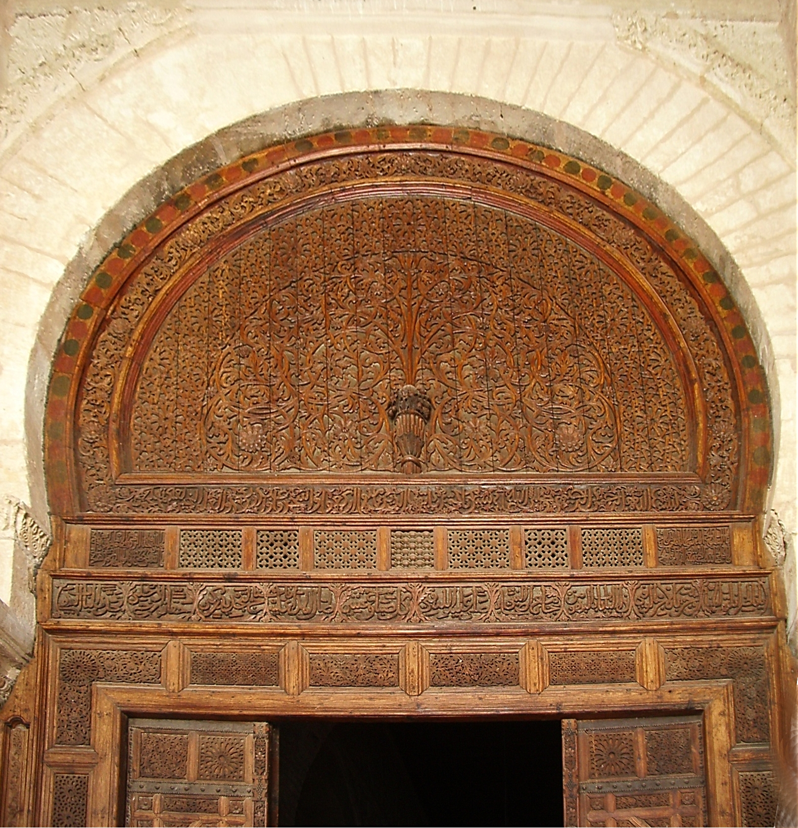 Upper part of the main door of the prayer hall of the Great Mosque of Kairouan, in Tunisia.